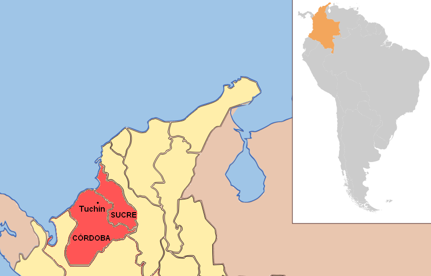 Córdoba and Sucre departments